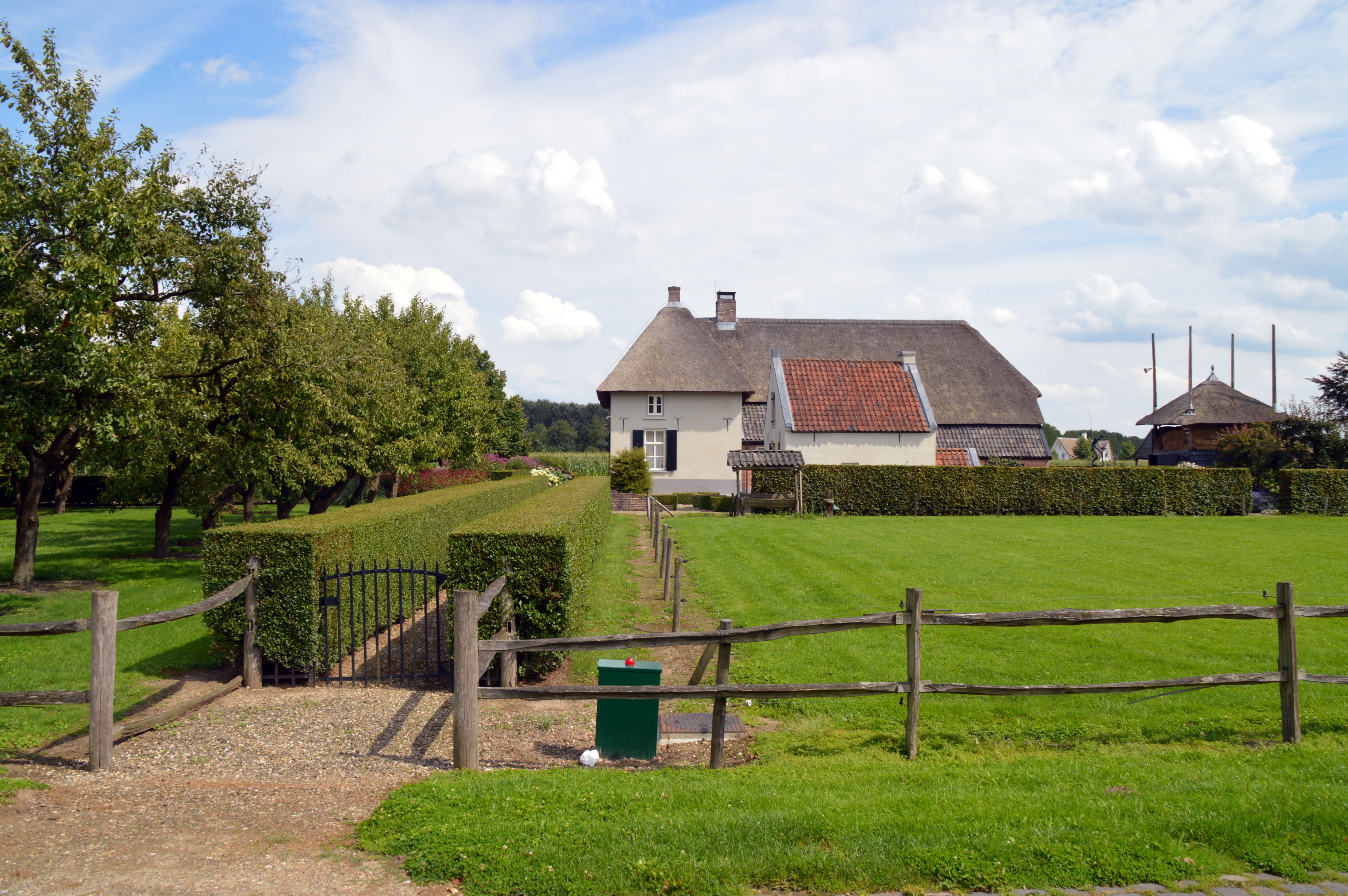 Lindenstraat Beuningen, Gelderland. Rijk van Nijmegen